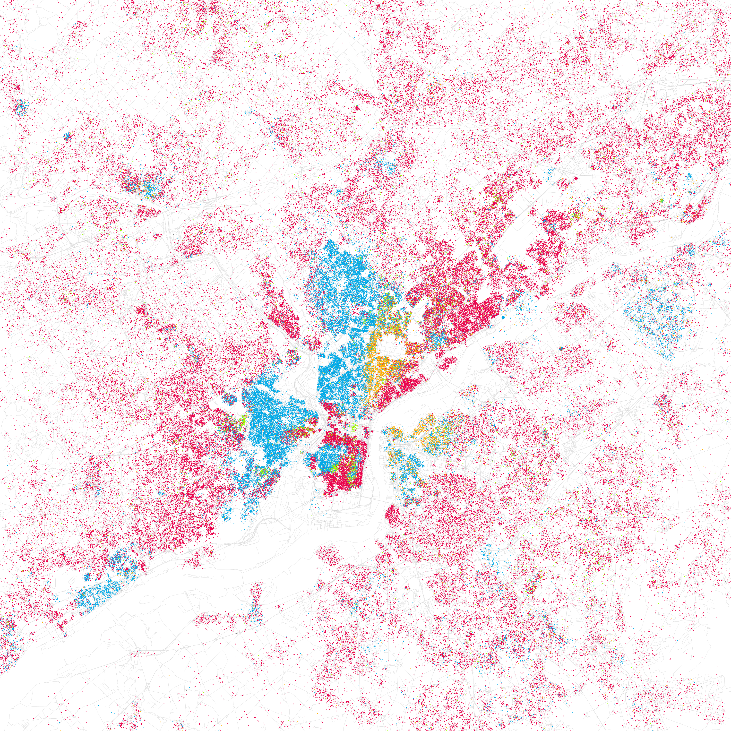 [Eric Fischer@ was astounded by Bill Rankin's map of Chicago's racial and ethnic divides and wanted to see what other cities looked like mapped the same way. To match his map, Red is White, Blue is Black, Green is Asian, Orange is Hispanic, Gray is Other, and each dot is 25 people. Data from Census 2000. Base map © OpenStreetMap, CC-BY-SA